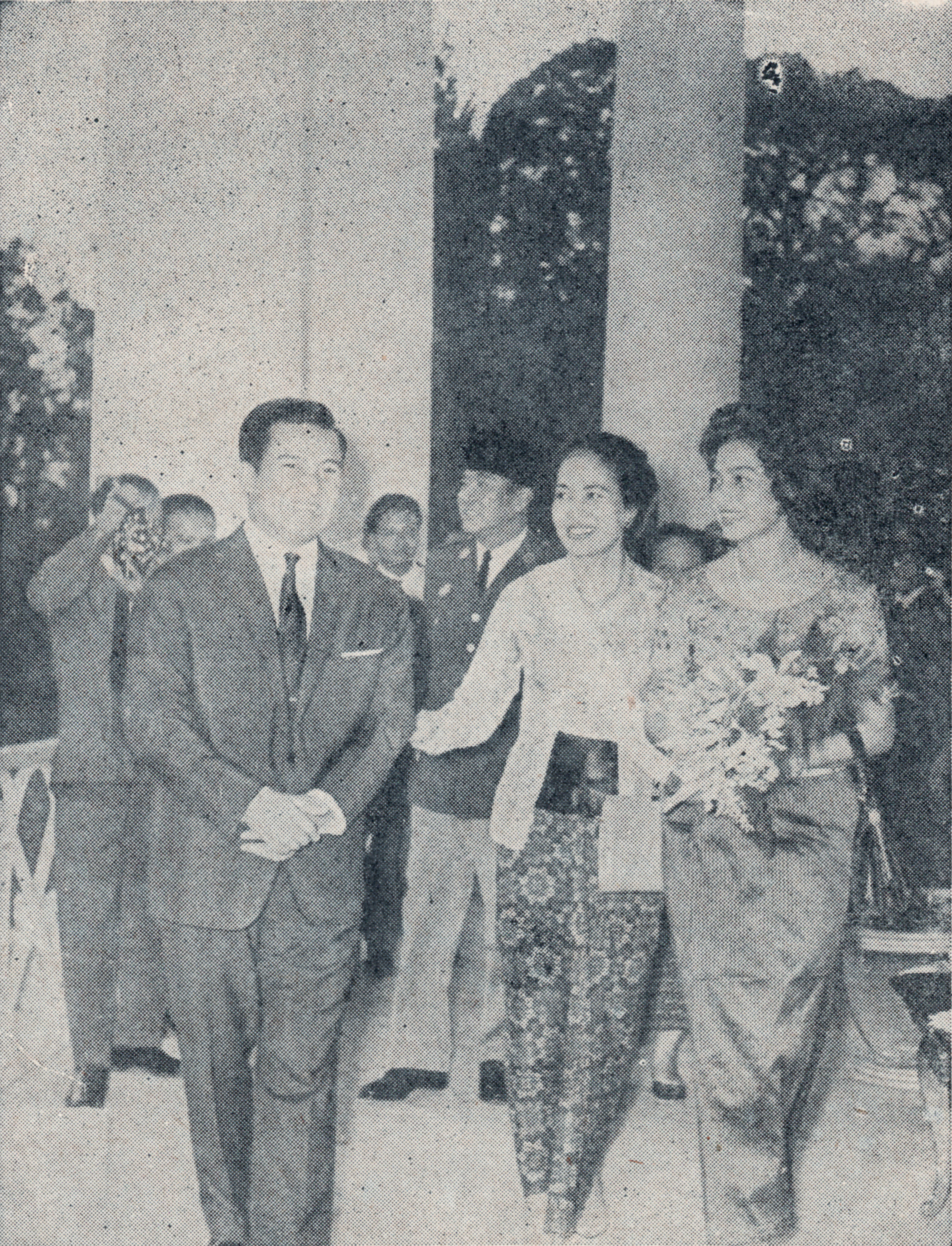 Hartini Sukarno with Norodom Sihanouk and wife